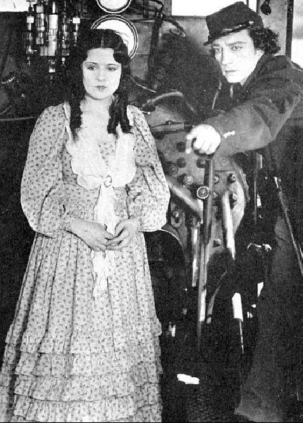 Buster Keaton and Marion Mack in a scene from The General. 1926.